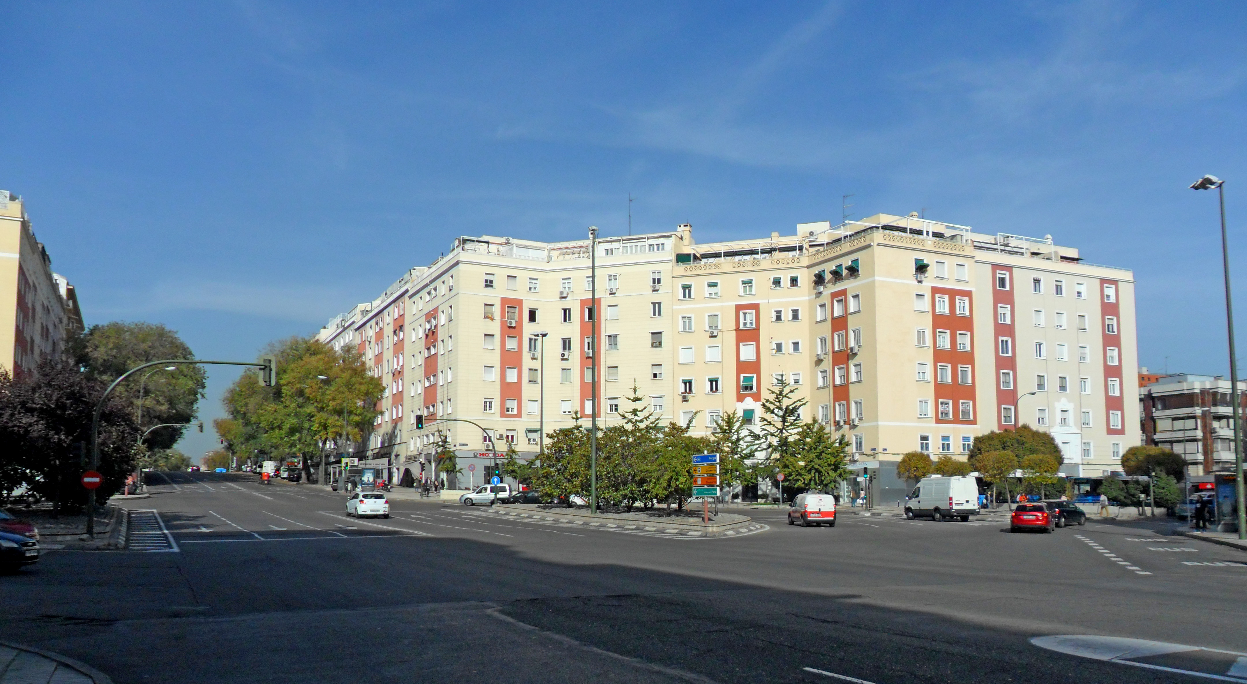 View from Plaza de la República Dominicana (square) in Chamartín District in Madrid (Spain).